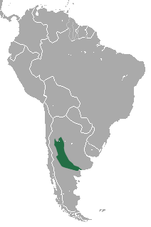 Lesser Fairy Armadillo (Chlamyphorus truncatus) range